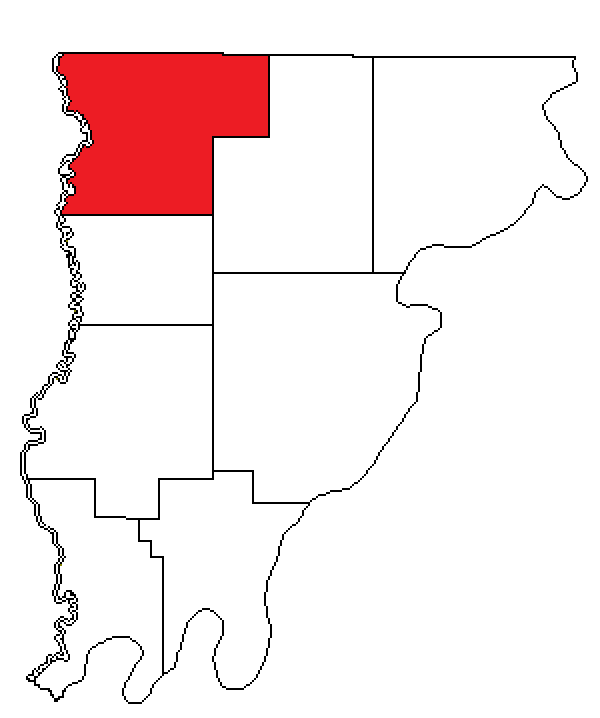 Lancaster Precinct in Wabash County, Illinois.